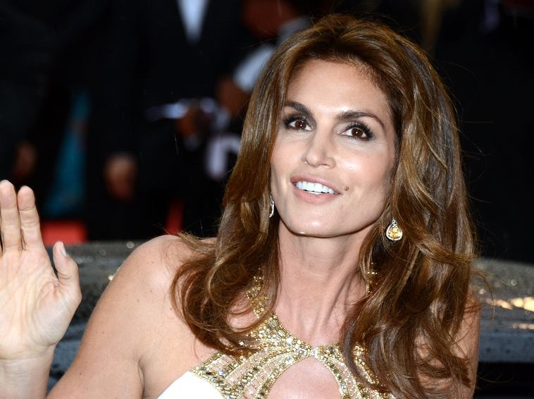 Cindy Crawford at the Cannes Film Festival